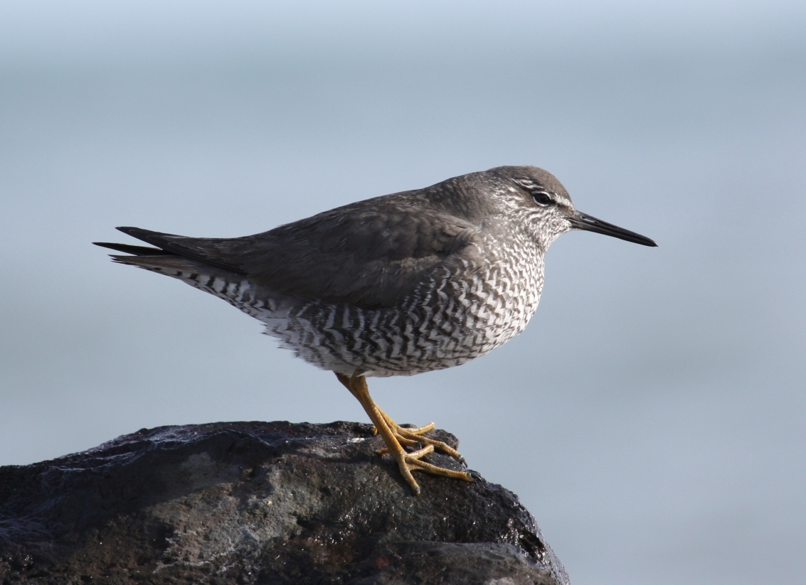 Wandering Tattler Tringa incana, Pillar Point, California